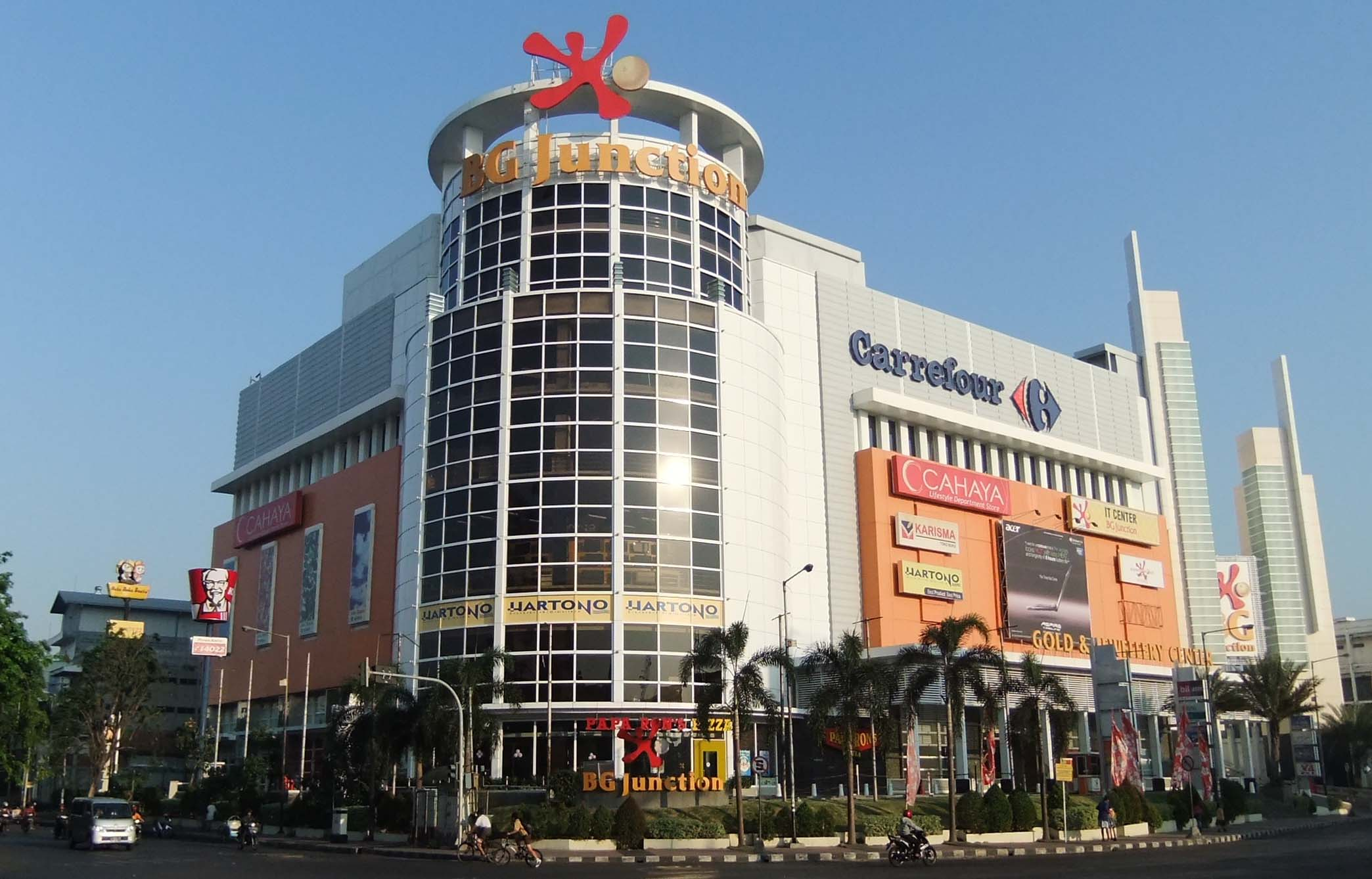 BG Junction, Surabaya